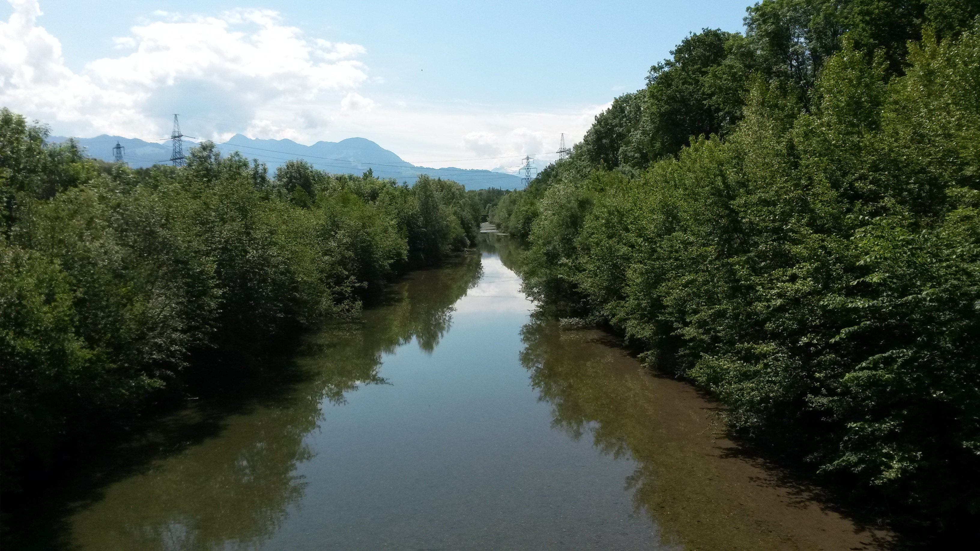 River Frutz just before the confluence with the Rhine (photographed from the bikebridge)